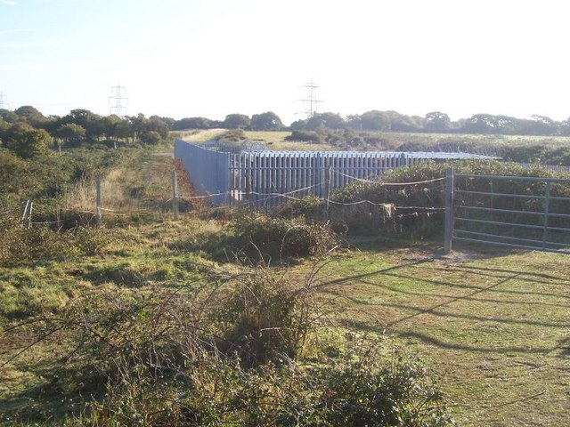 The Fawley Tunnel The fenced area is the entrance to the Fawley Transmission Tunnel, a 4 metre diameter concrete and cast iron ring lined tunnel, constructed in the 1960's. The tunnel is used only for connecting the overhead power lines in the background with Fawley Power Station, on the far side of Southampton Water.